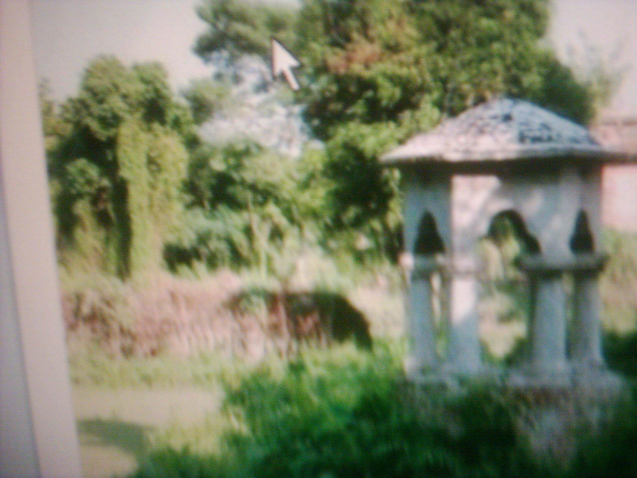 পরিবারিক মন্দির এখন ঘাসে ঢাকা